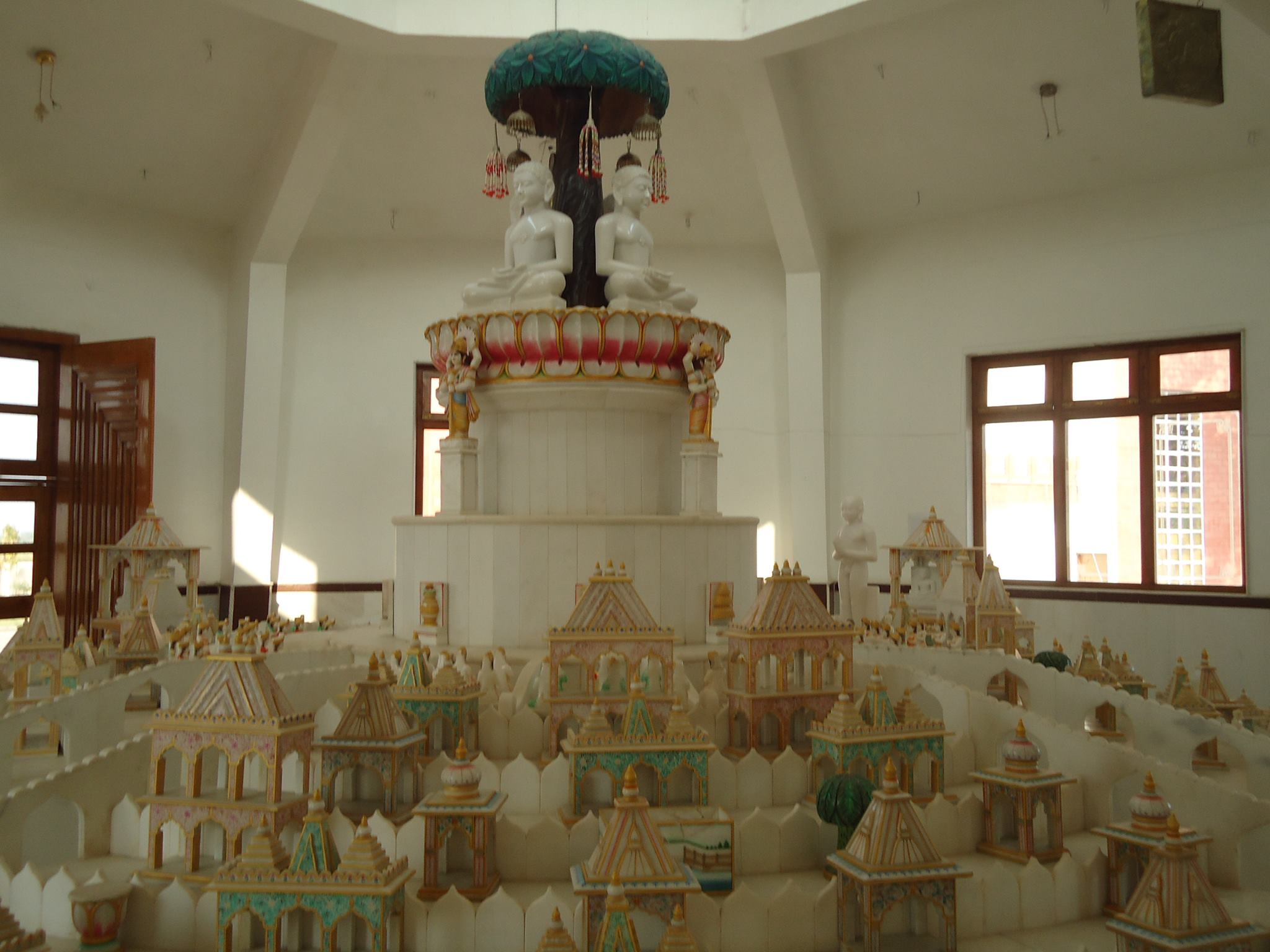 Samosharan Mandir (jain temple)